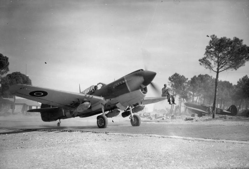 Royal Air Force- Italy, the Balkans and South-east Europe, 1942-1945. Curtiss Kittyhawk Mark IV, FX745 'OK-Y', of No. 450 Squadron RAAF, taxying to the runway at Cervia, Italy, loaded with three 250-lb GP bombs for a sortie in support of the 8th Army's spring offensive in the Po Valley.